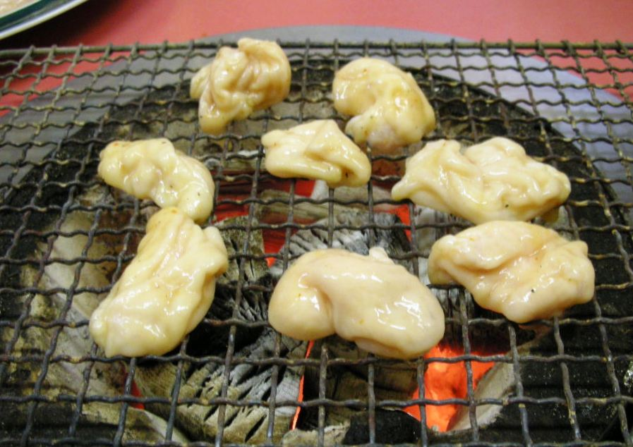 Atsugi shirokoro at Dai-chan